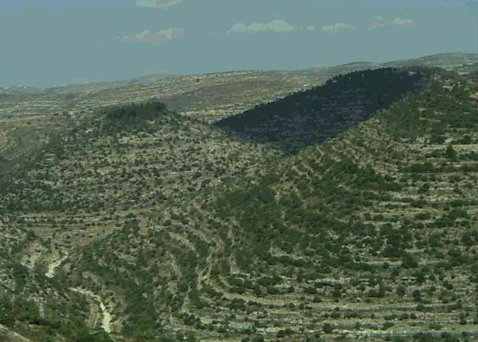 View from Neve Tzuf (Halamish)